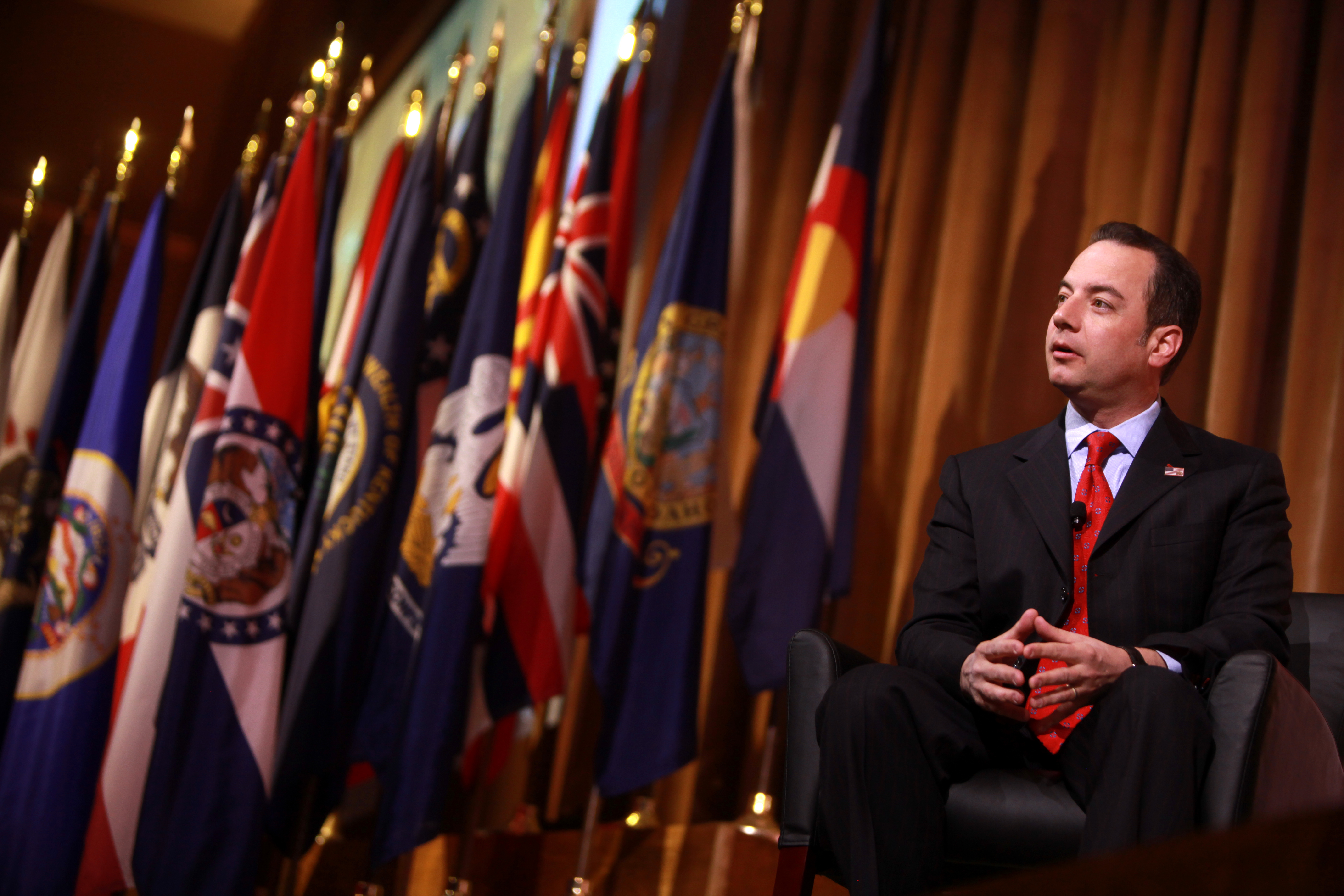 Reince Priebus speaking at CPAC 2014 in Washington, D.C.